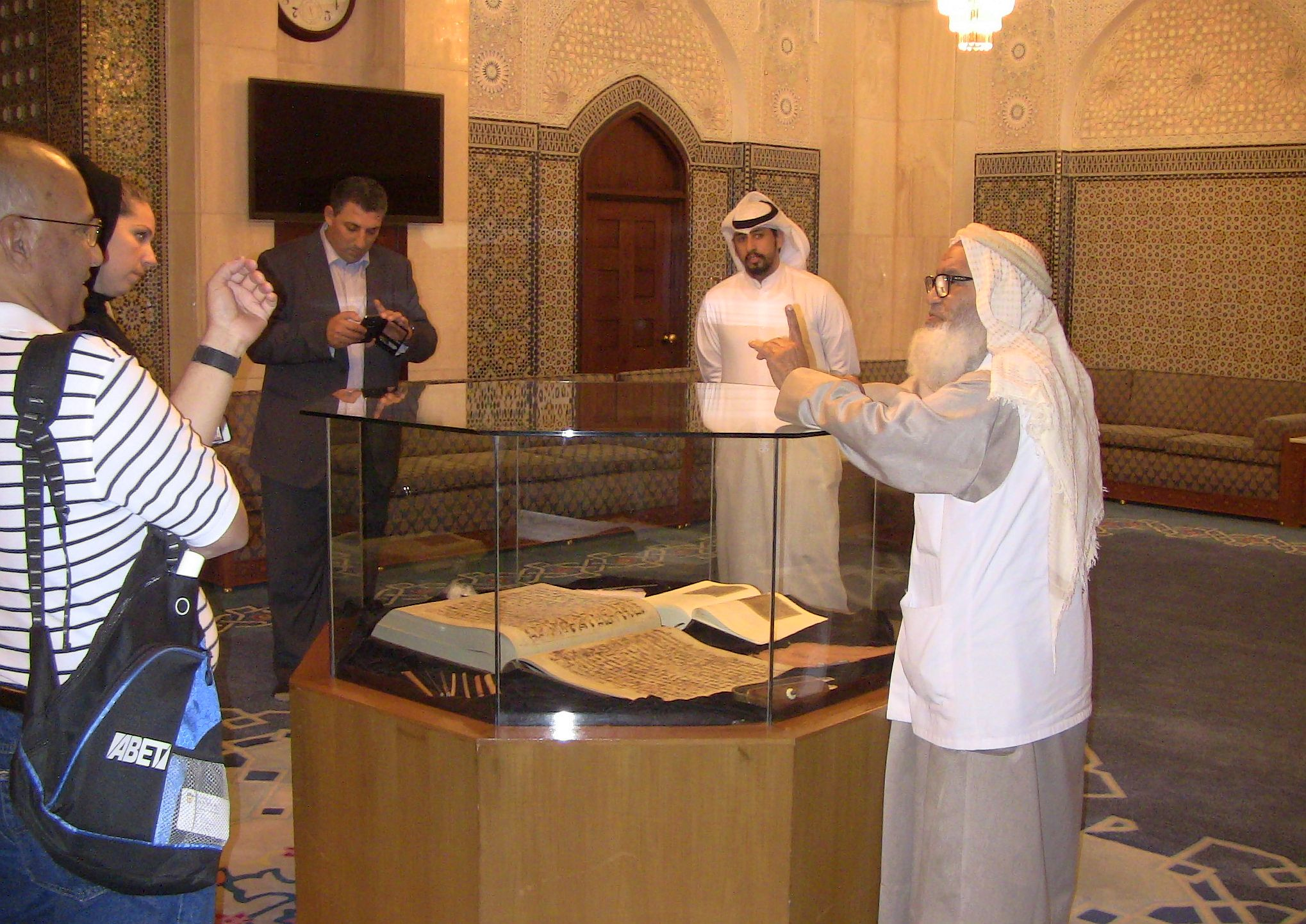 The Uthman Quran replica at the Grand mosque in Kuwait